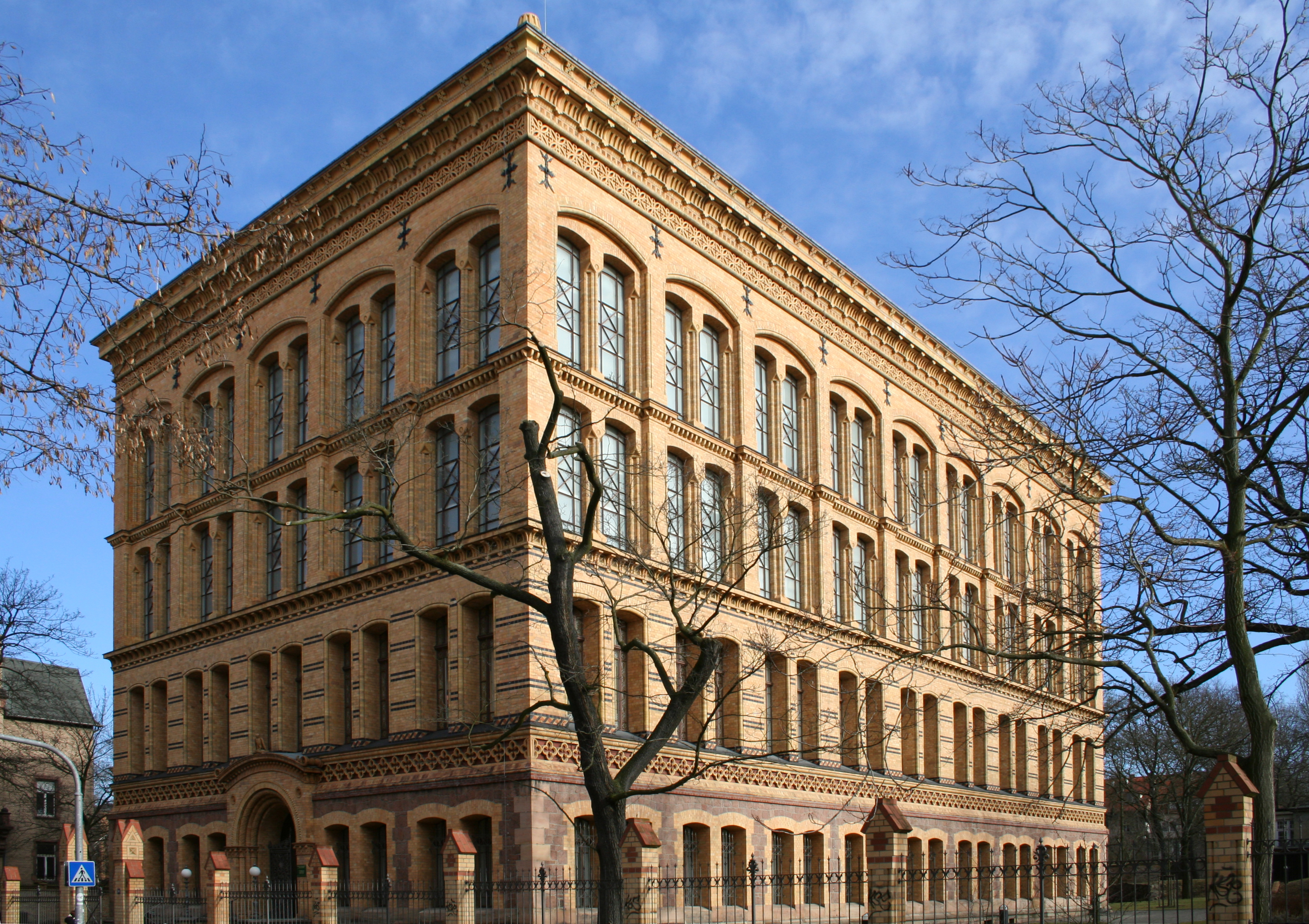 University Library building in Halle (Saale), August-Bebel-Straße 50